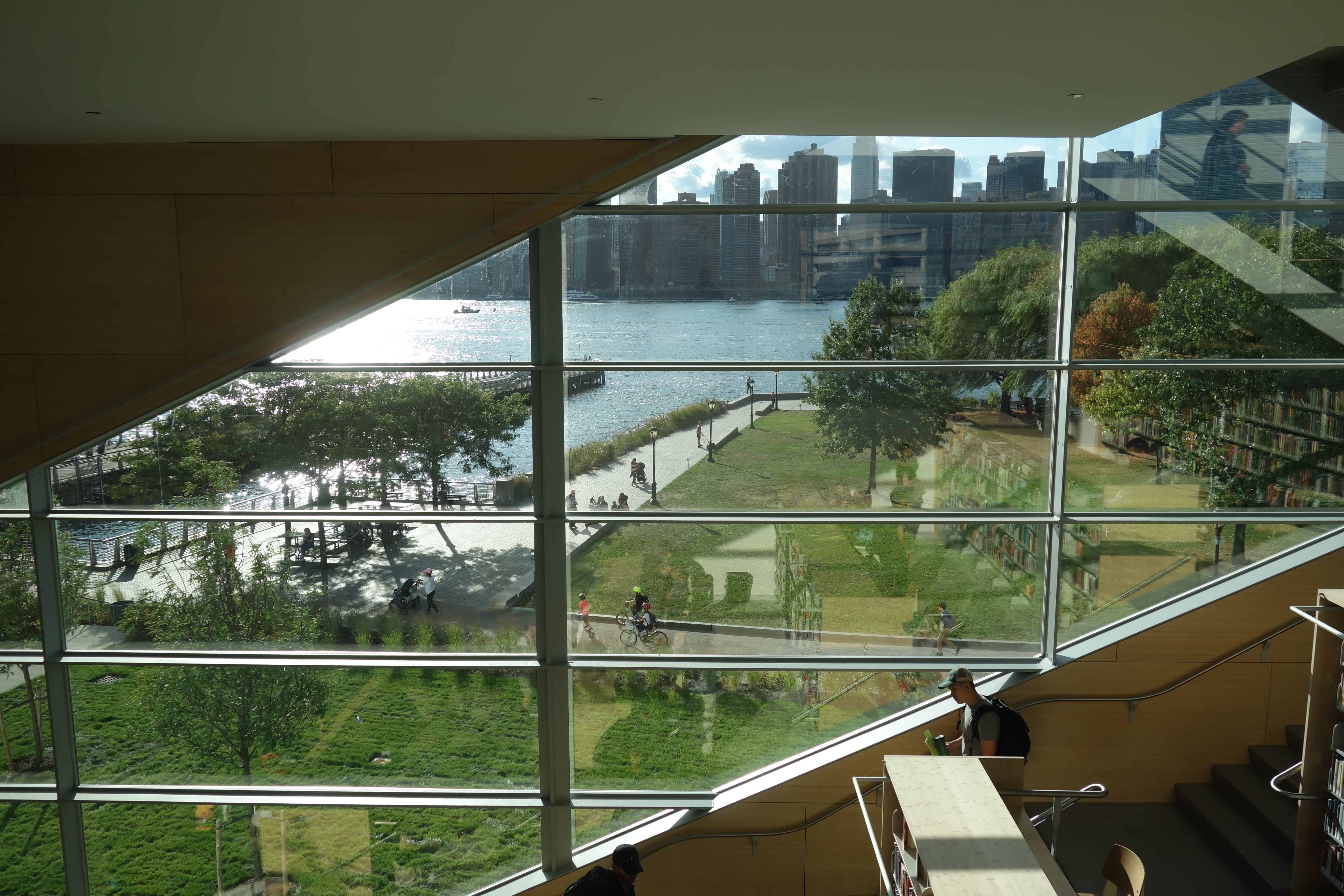 Looking from the the second level footbridge west towards one of the asymmetric windows of the Hunters Point Community Library, at Center Boulevard and 48th Avenue in Hunters Point, Queens. The new library, opened today, resembles many modern museums and science centers, and Apple stores.